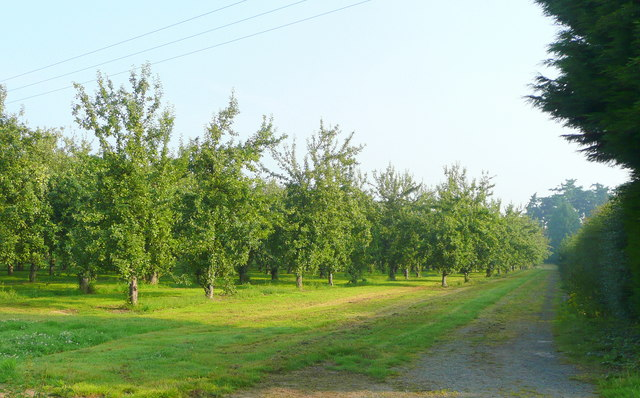 Cider orchards east of Hereford 2 This large orchard is part of the Bulmer empire. View north of the B4224.